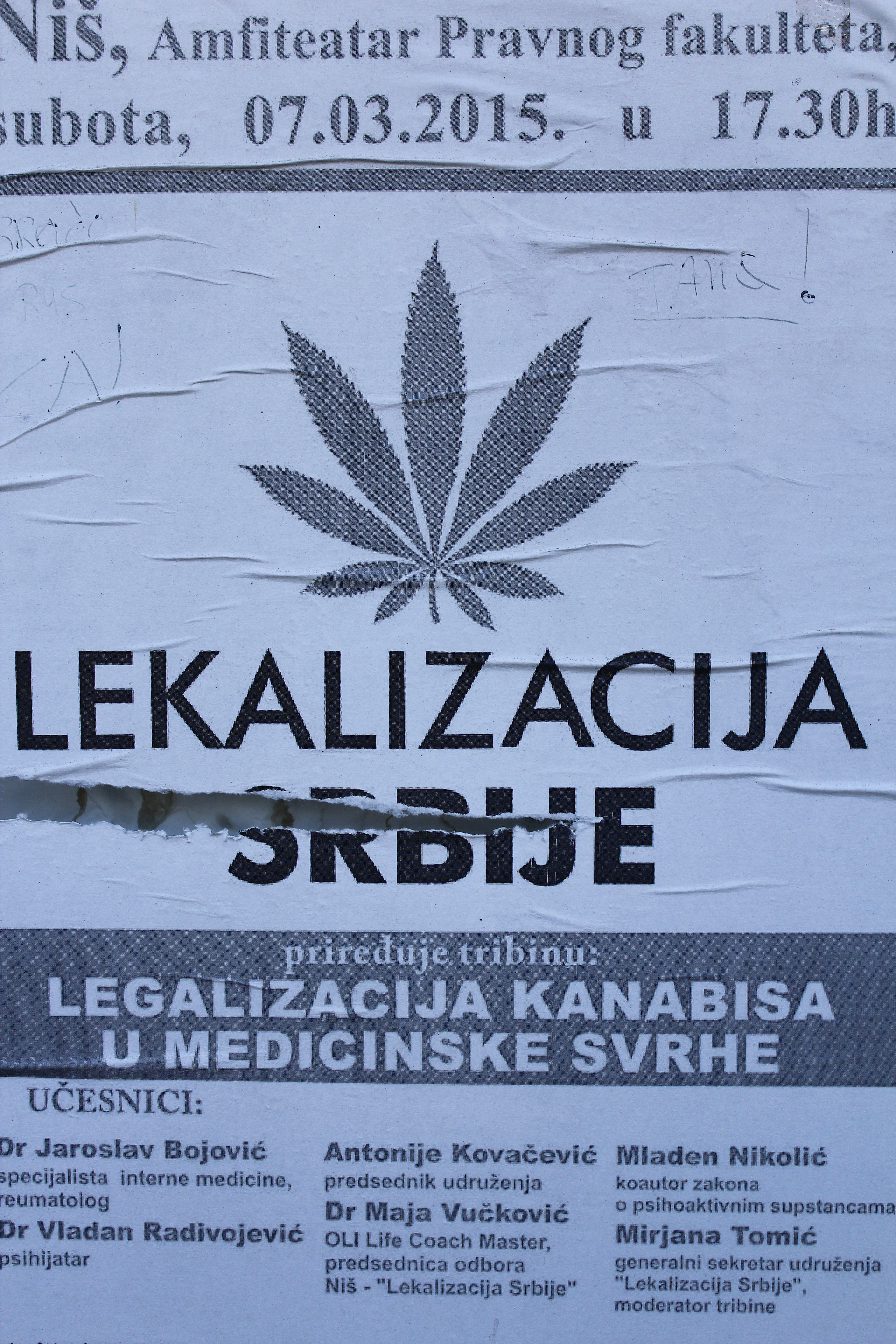 Poster calling for the legalization of Marijuana, Belgrade